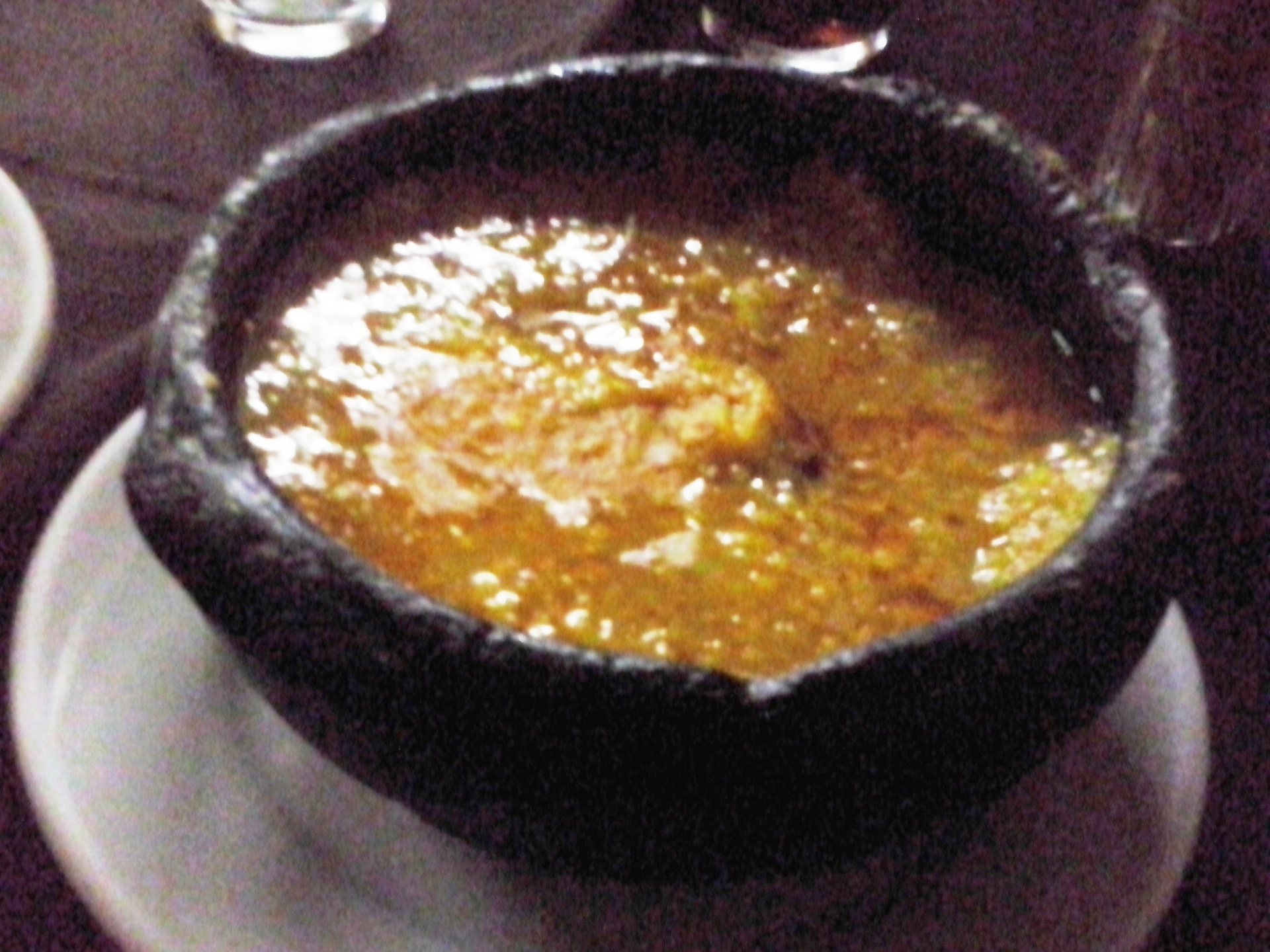 Canjiquinha in a restaurant of Coronel Fabriciano, Minas Gerais, Brazil.